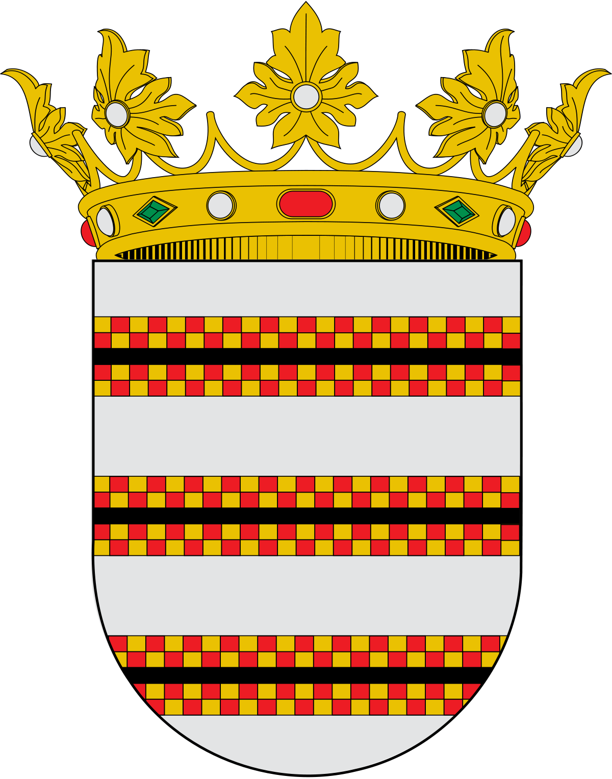 Sotto Mayor coat of arms